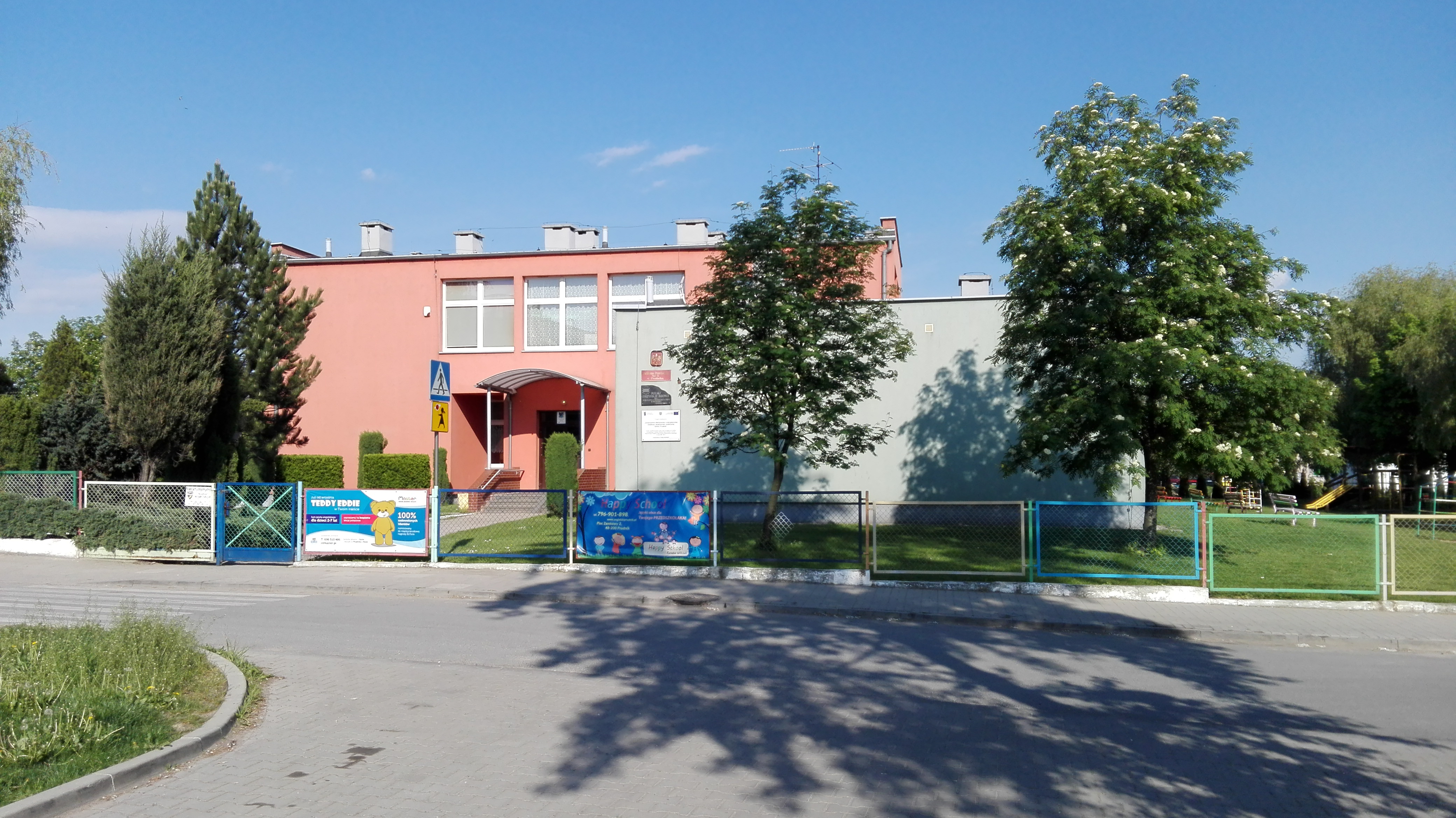 9a Podgórna Street in Prudnik